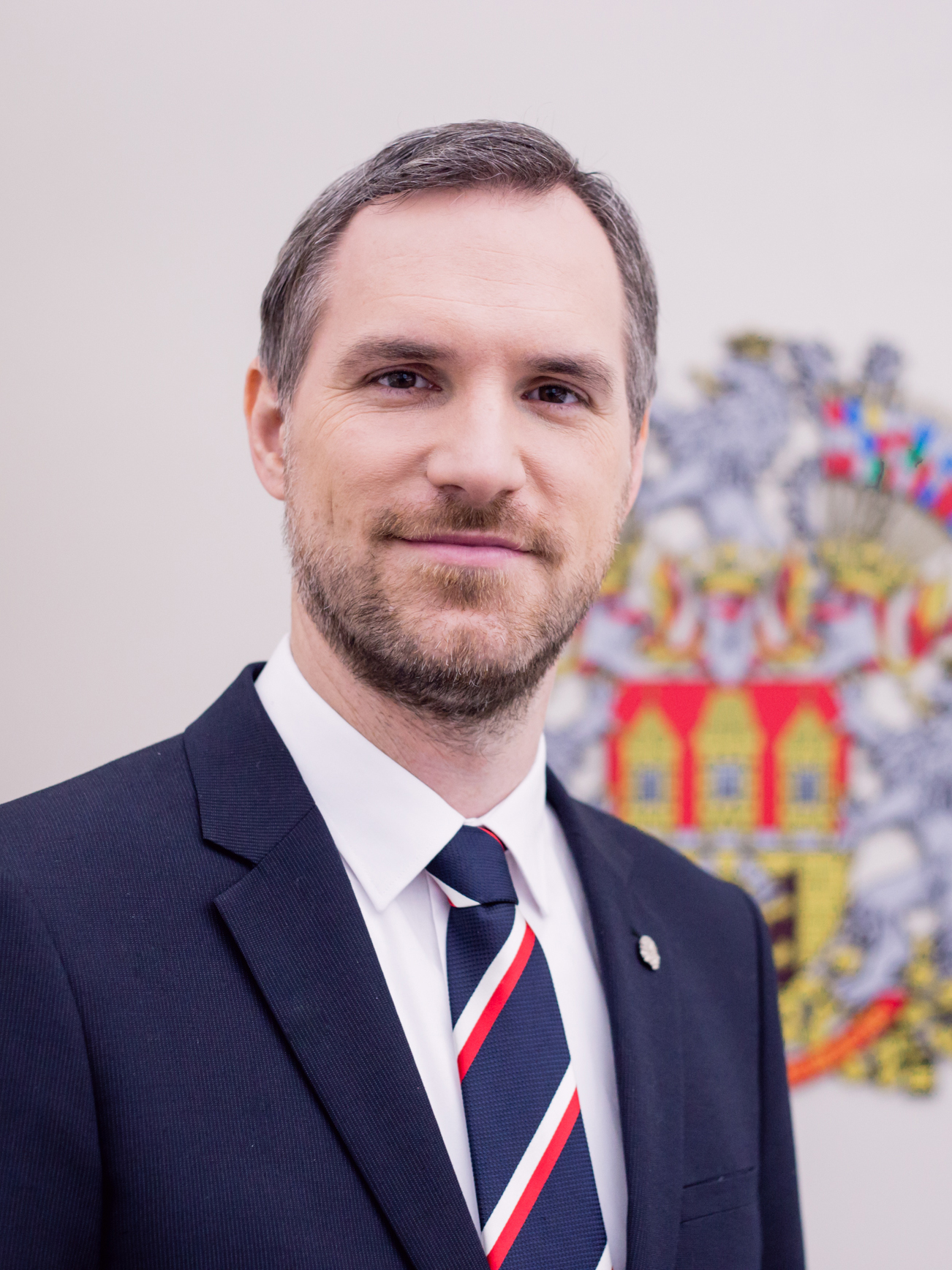 Zdeněk Hřib, Mayor of Prague Personality rights warningAlthough this work is freely licensed or in the public domain, the person(s) shown may have rights that legally restrict certain re-uses unless those depicted consent to such uses. In these cases, a model release or other evidence of consent could protect you from infringement claims.